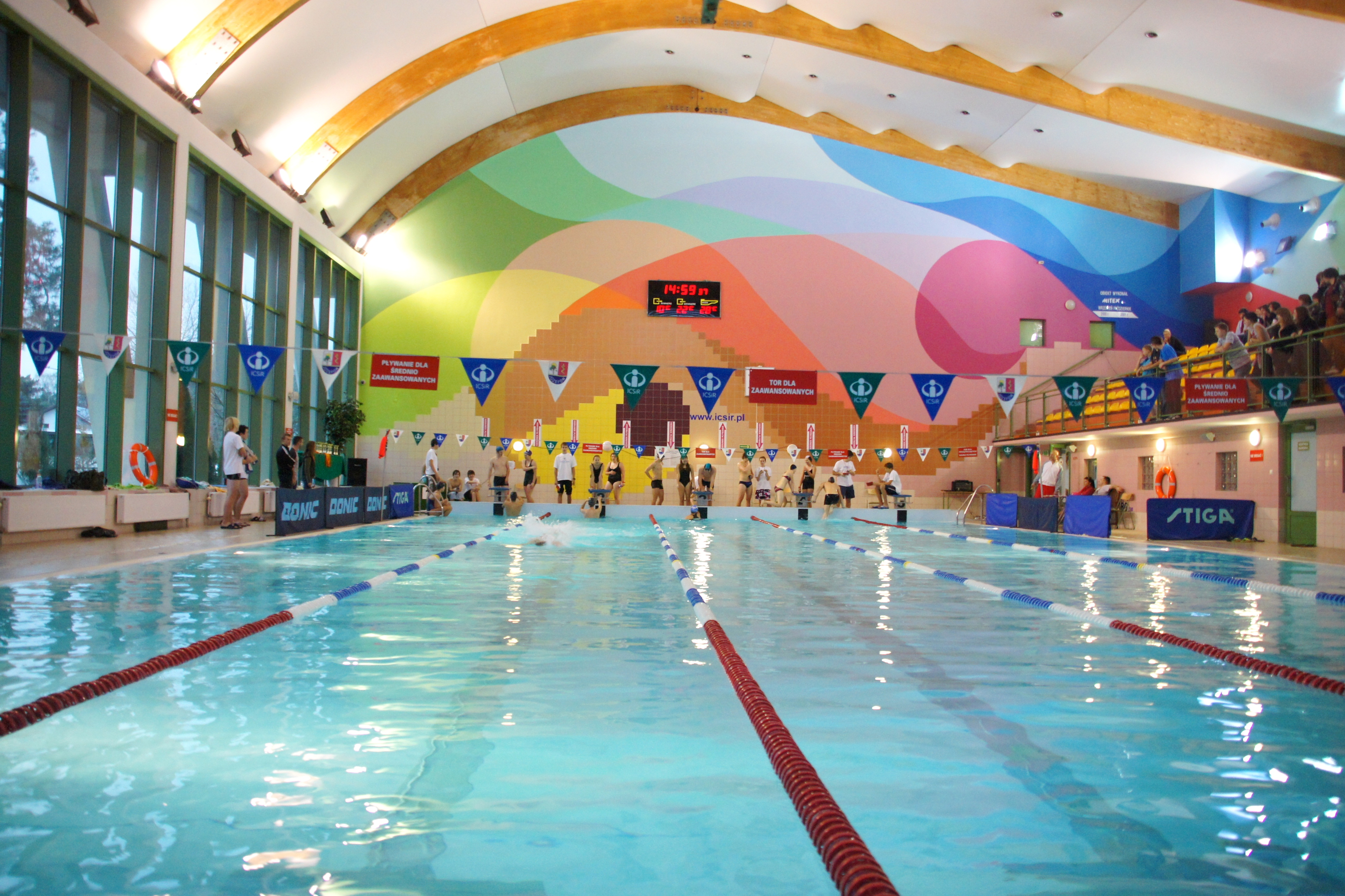 Swimming pool. Integracyjne Centrum Sportu i Rekreacji, Józefów, Otwock County, Poland.